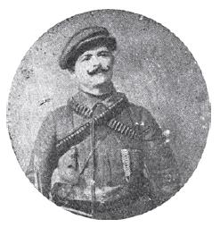 Portrait of IMRO member Pando Zafirov, bodygard of Todor Alexandrov